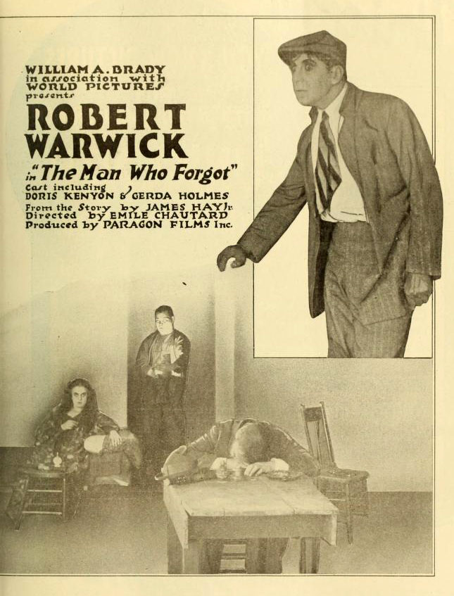 Advertisement in Moving Picture World